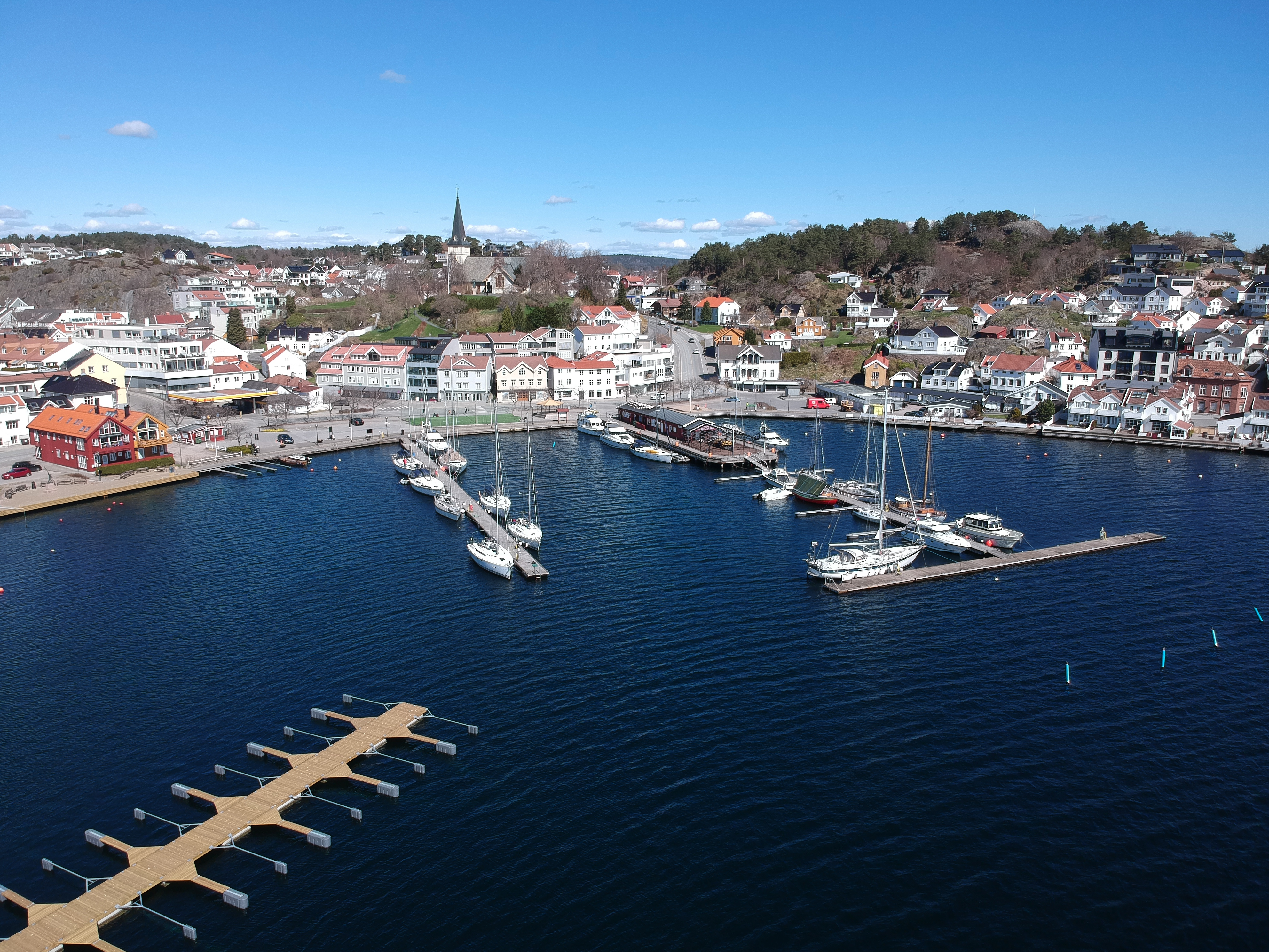 Grimstad city view